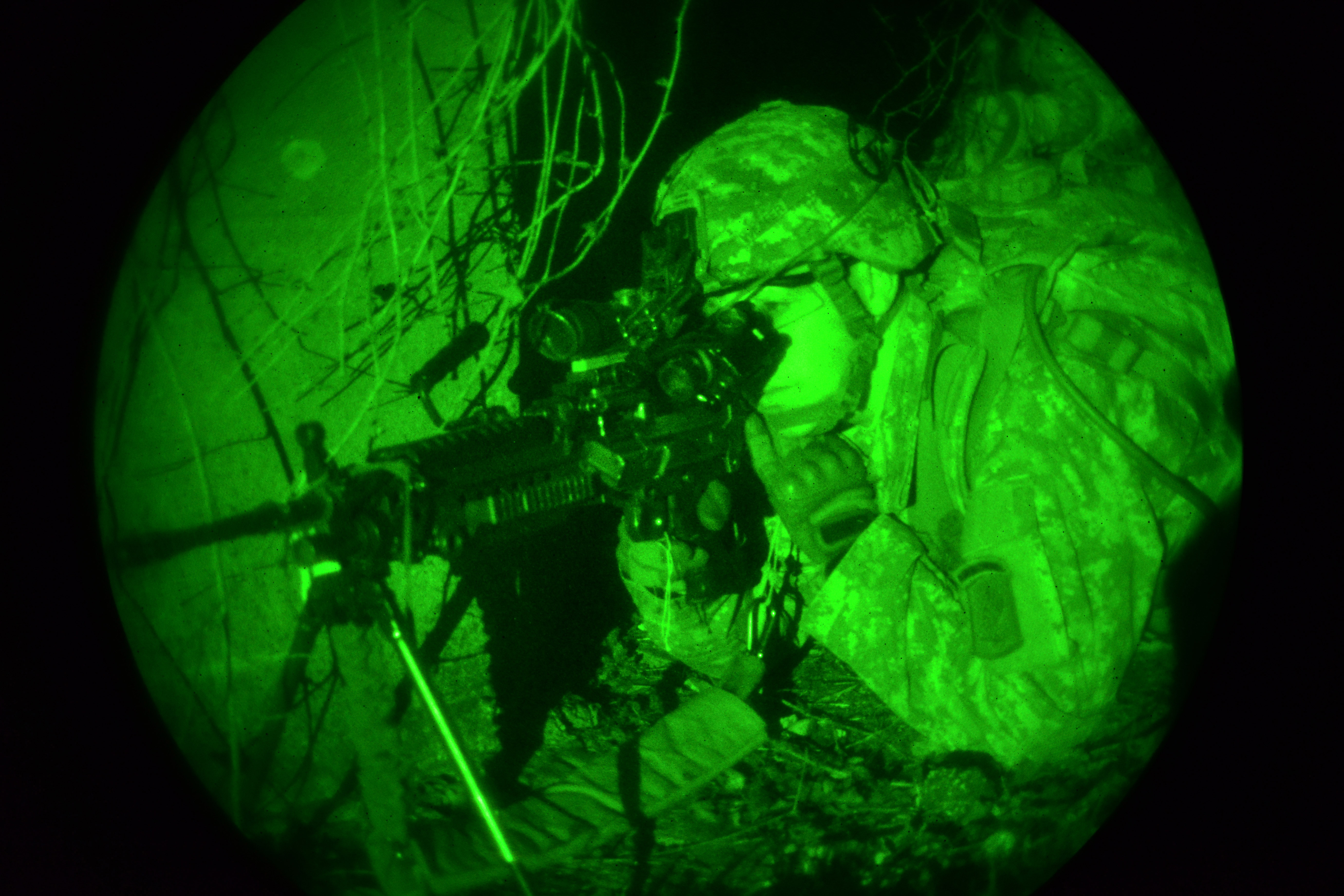 A U.S. Army paratrooper from Company C, 1st Battalion, 503rd Infantry Regiment, 173rd Airborne Brigade, patrols a hilltop, Feb. 4, 2015 during training at Longare Complex, Italy. The 173rd Airborne is the Army’s Contingency Response Force in Europe, capable of rapidly projecting forces in Europe, Africa and the Middle East. (U.S. Army Video by Visual Information Specialist Paolo Bovo/Released)